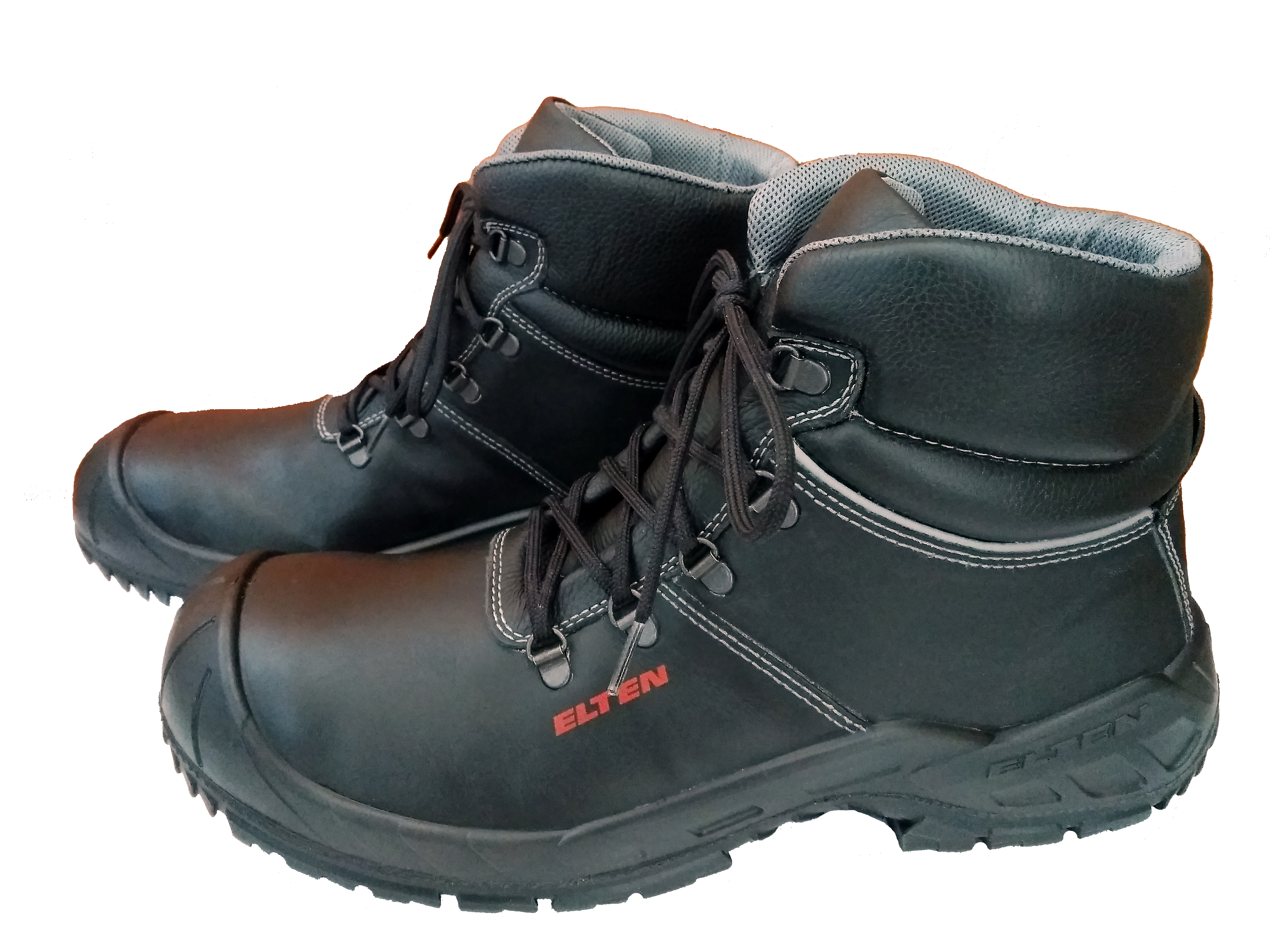 Elten Renzo Mid Class S3 safety boots. This safety footwear complies to the European EN ISO 20345:2011 standards.